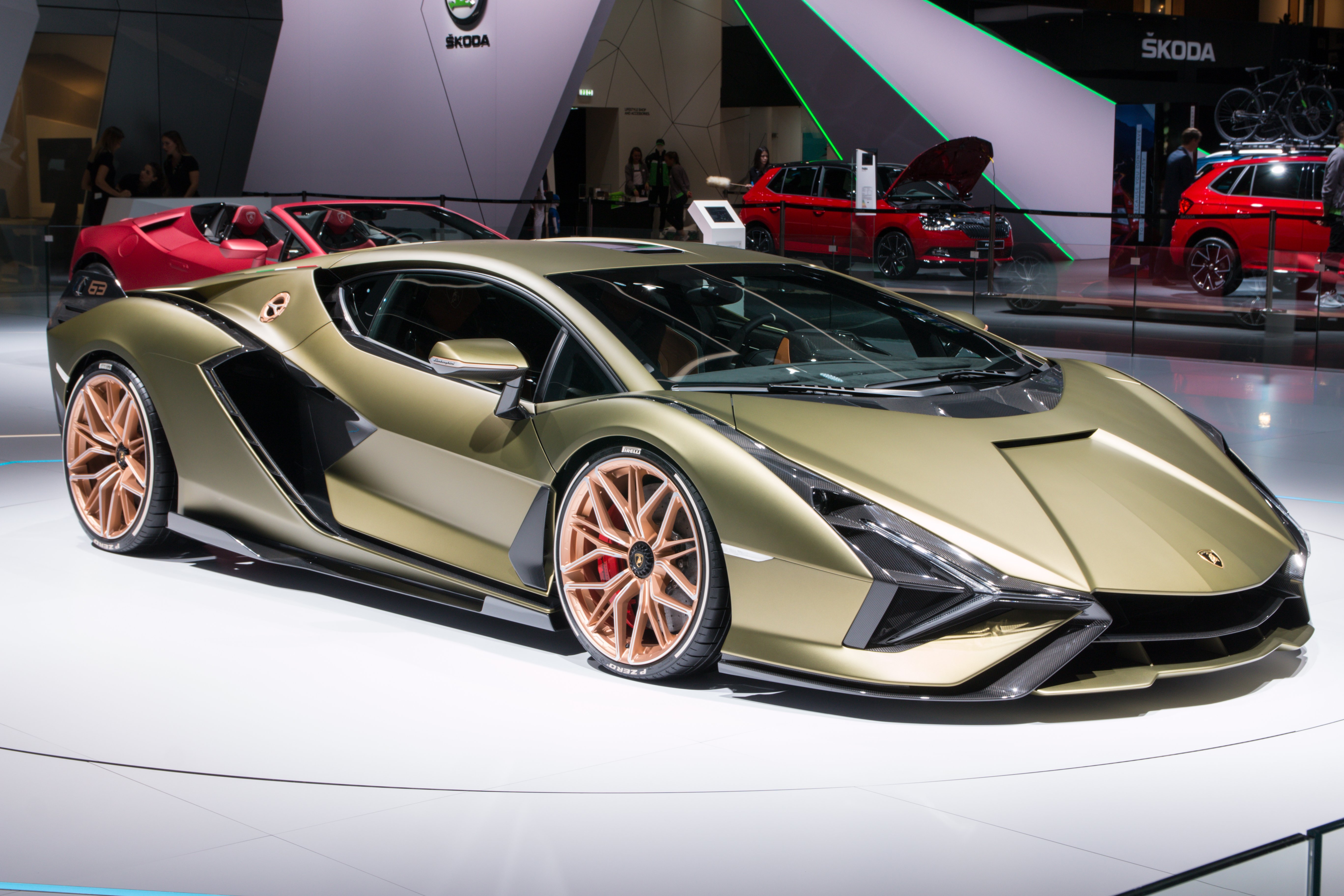 Lamborghini Sián